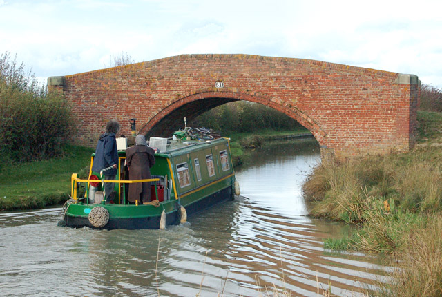 Boat heading north through bridge 81, Oxford Canal, Onley, Northamptonshire